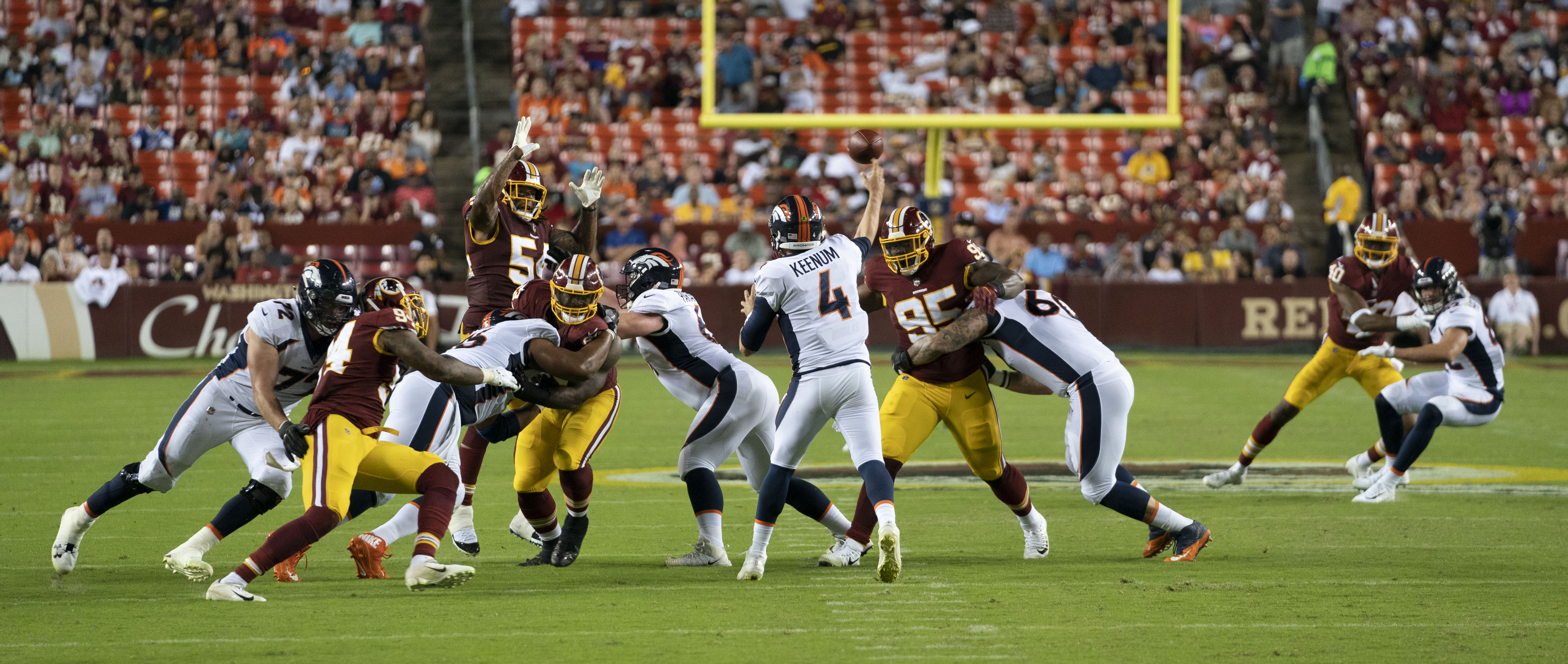 Broncos at Redskins 8/24/18